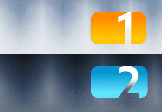 Logo of Praça TV